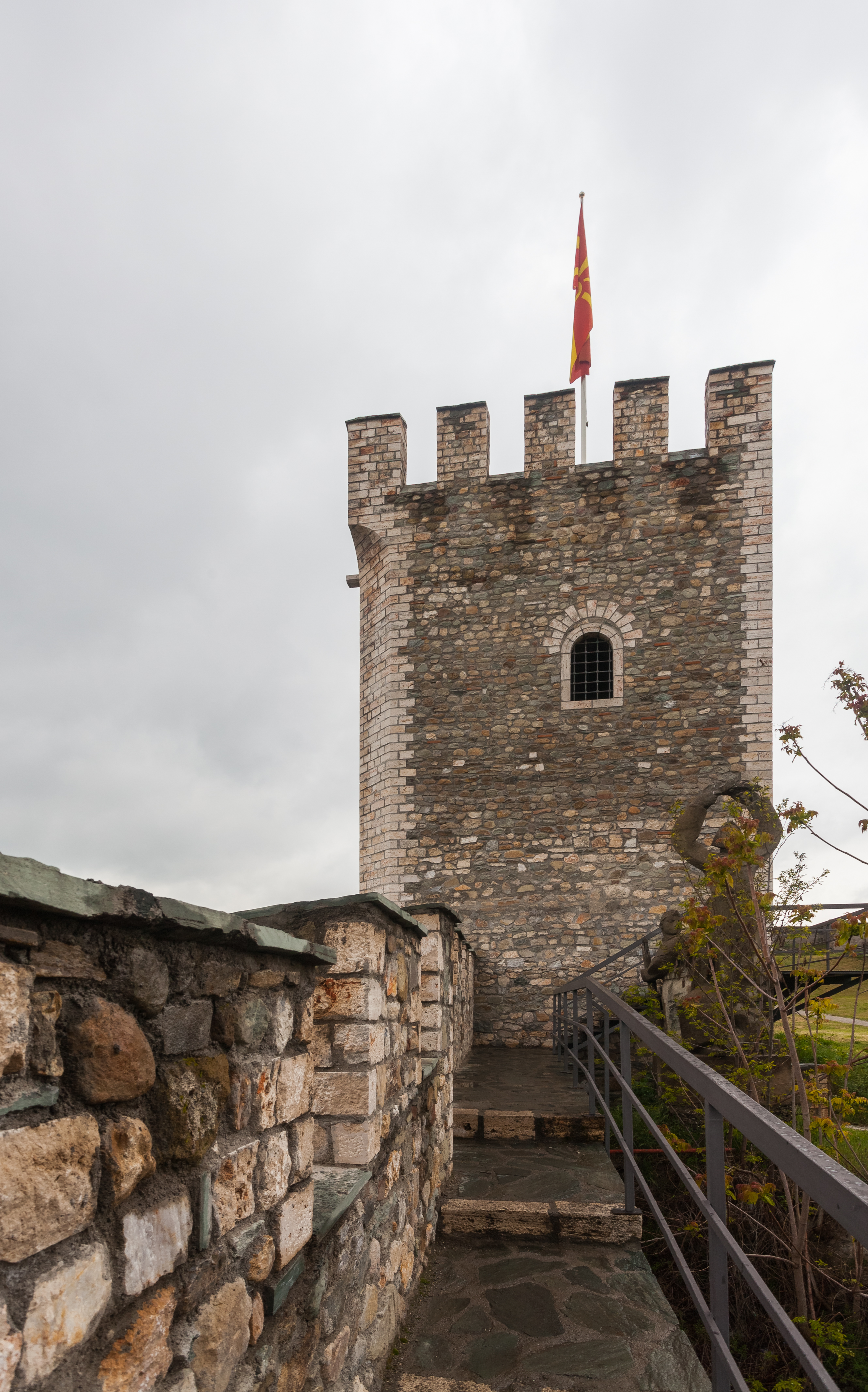 Skopje Fortress, Macedonia